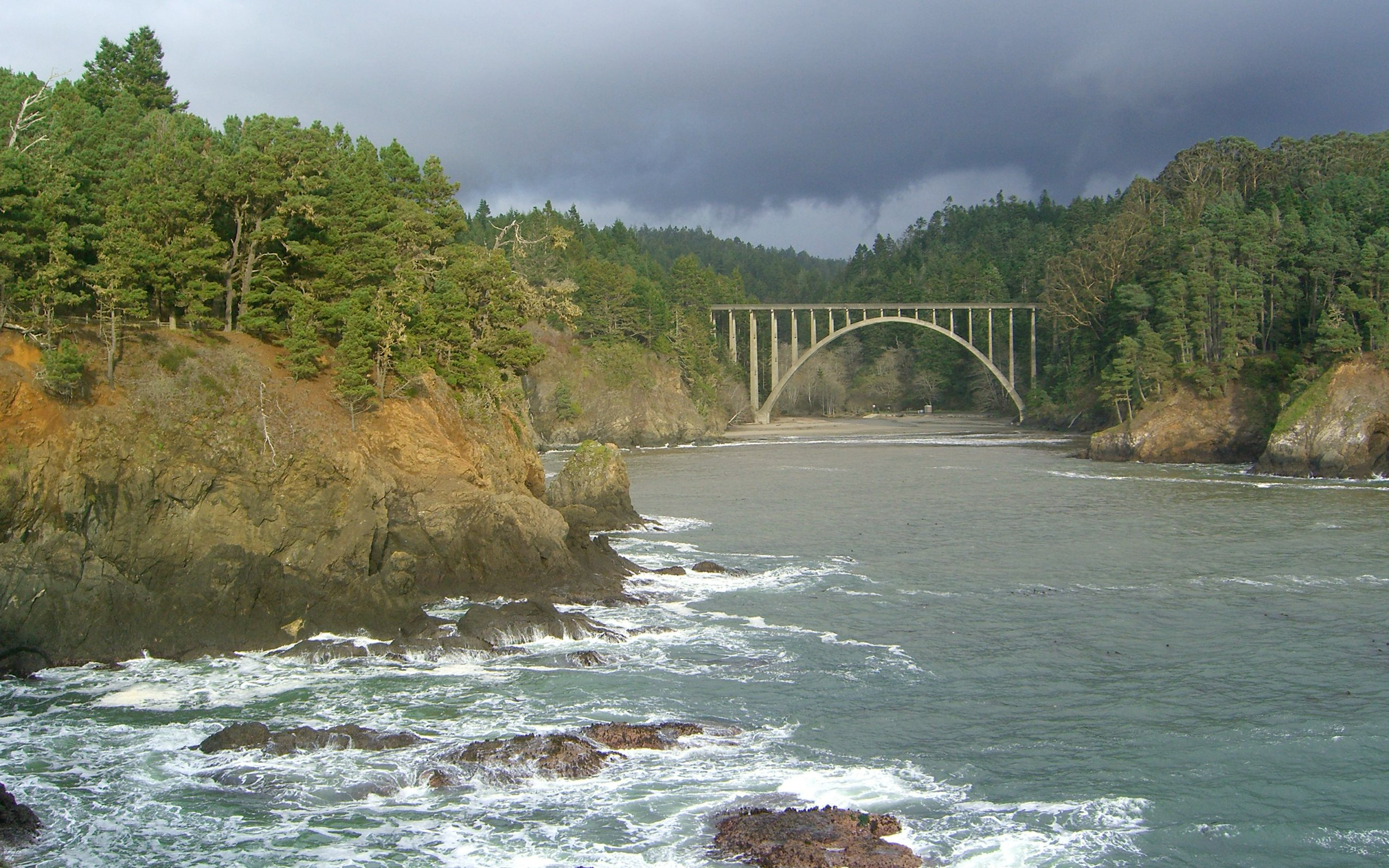 Russian Gulch, northern California coast, Feb 23, 2007.